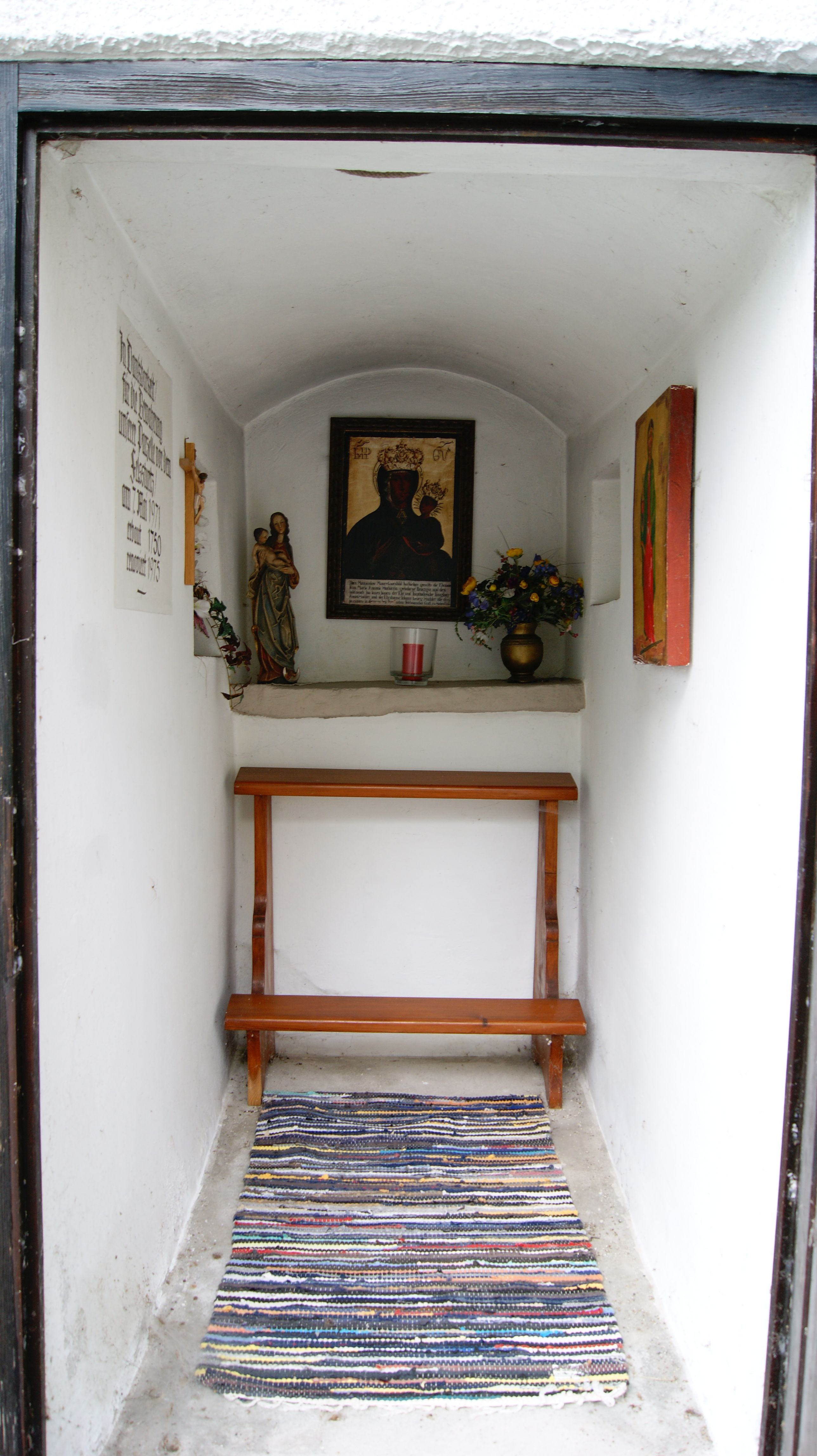 Chapel in the local district "Oberklien" in Hohenems, Vorarlberg, Österreich.